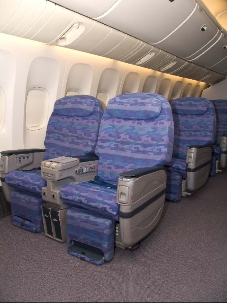 Interior of Business class cabin on leased Boeing 777-200ER